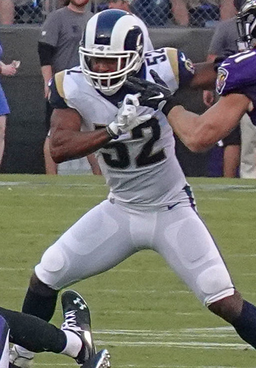 Joe Flacco 2018 Los Angeles Rams season